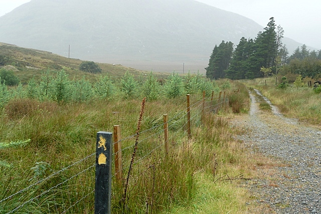 Western Way in Lettershanbally forest The Western Way is one of an expanding network of designated and marked trails, designed to encourage walking in Ireland whilst trying to overcome the lack of a general right to walk on private land. The way runs 250 km through County Mayo and County Galway, and is a combination of agreed routes through private land, minor roads and forestry tracks as here.